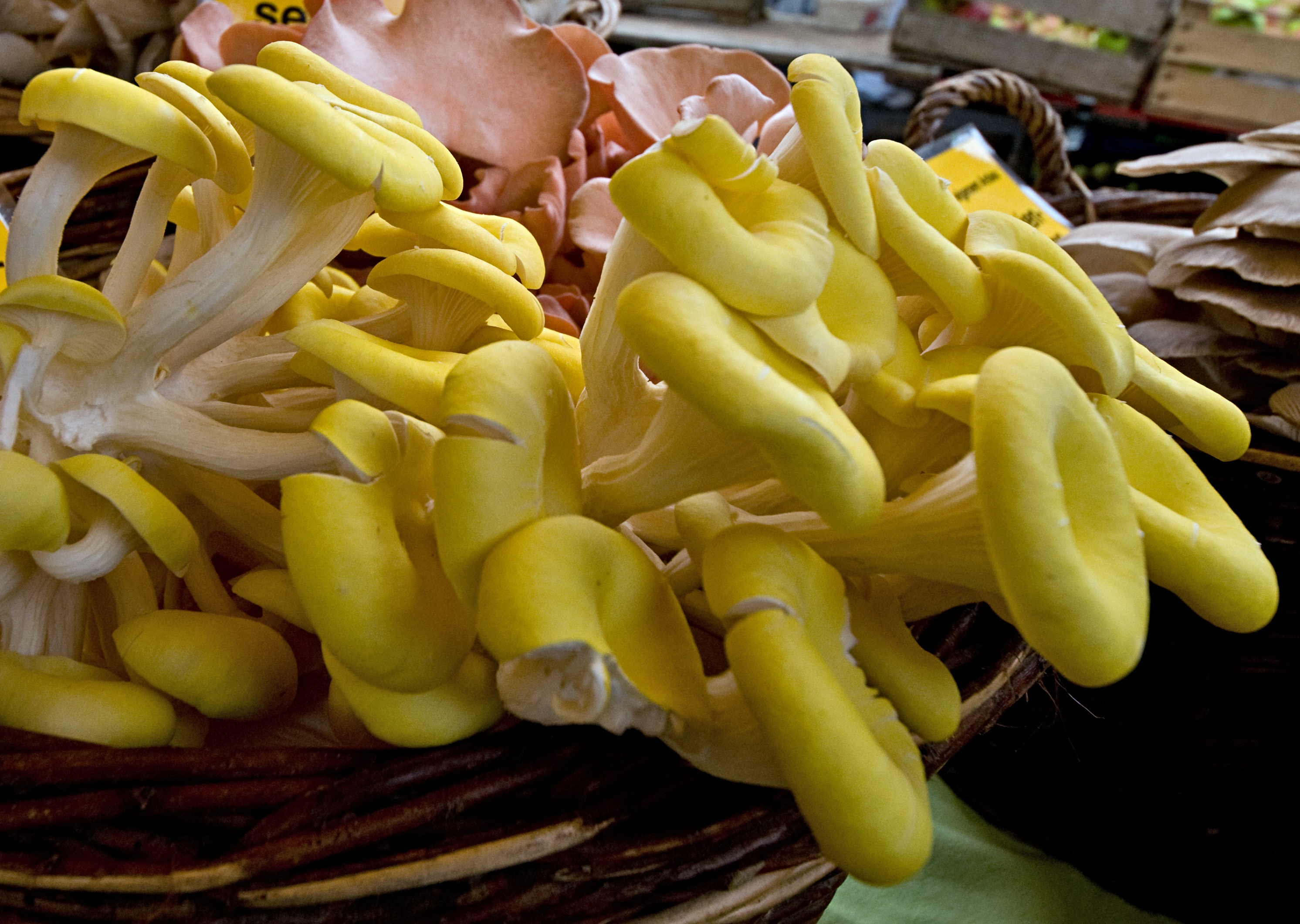 fungi